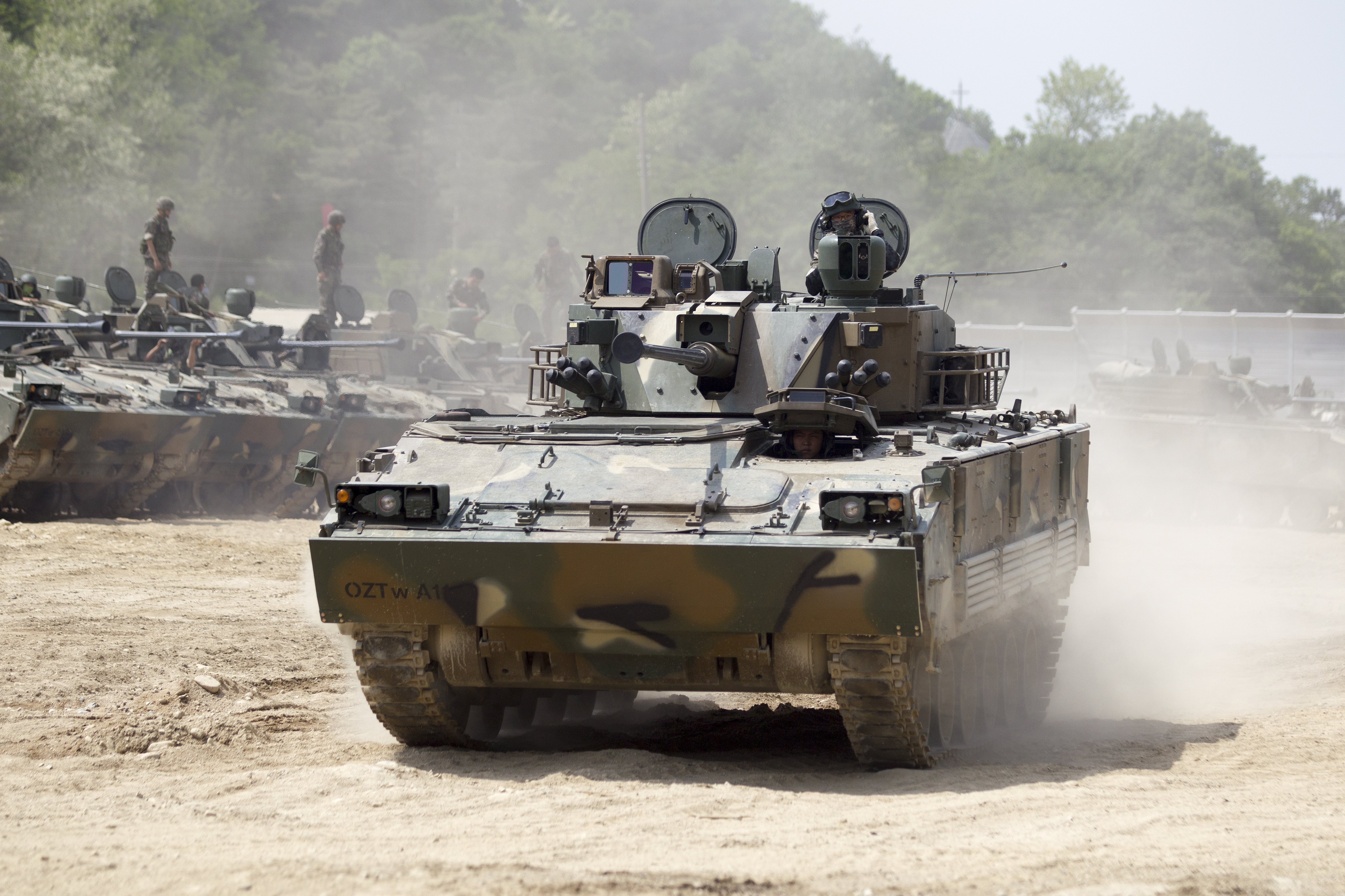 2014.5.20 육군 수도기계화보병사단 K-21 장갑차 전투사격훈련 K-21 combat firing practice, Republic of Korea Army Capital Mechanized Infantry Division